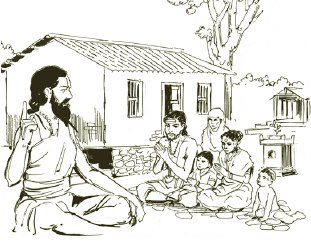 दिनकर स्वामी